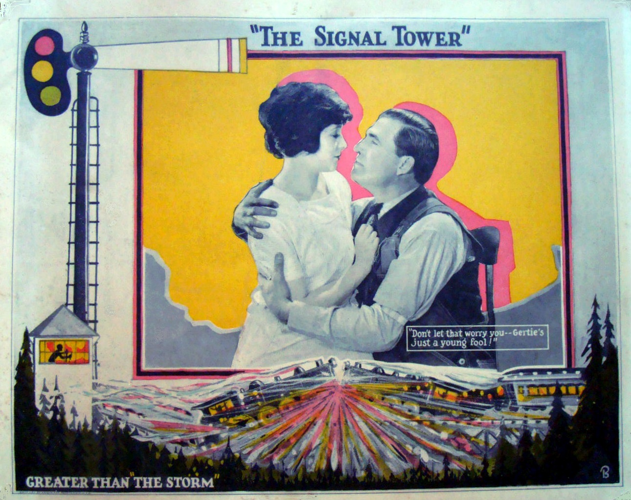 Lobby card for the American drama film The Signal Tower (1924). There are no copyright marks as can be seen at the links. At bottom left contained in the artwork is Country of origin & production USA.